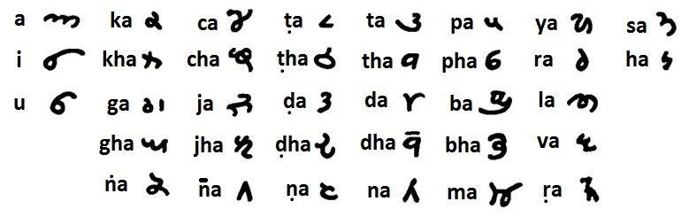 Landa Script, previously used in Punjab and Sindh.